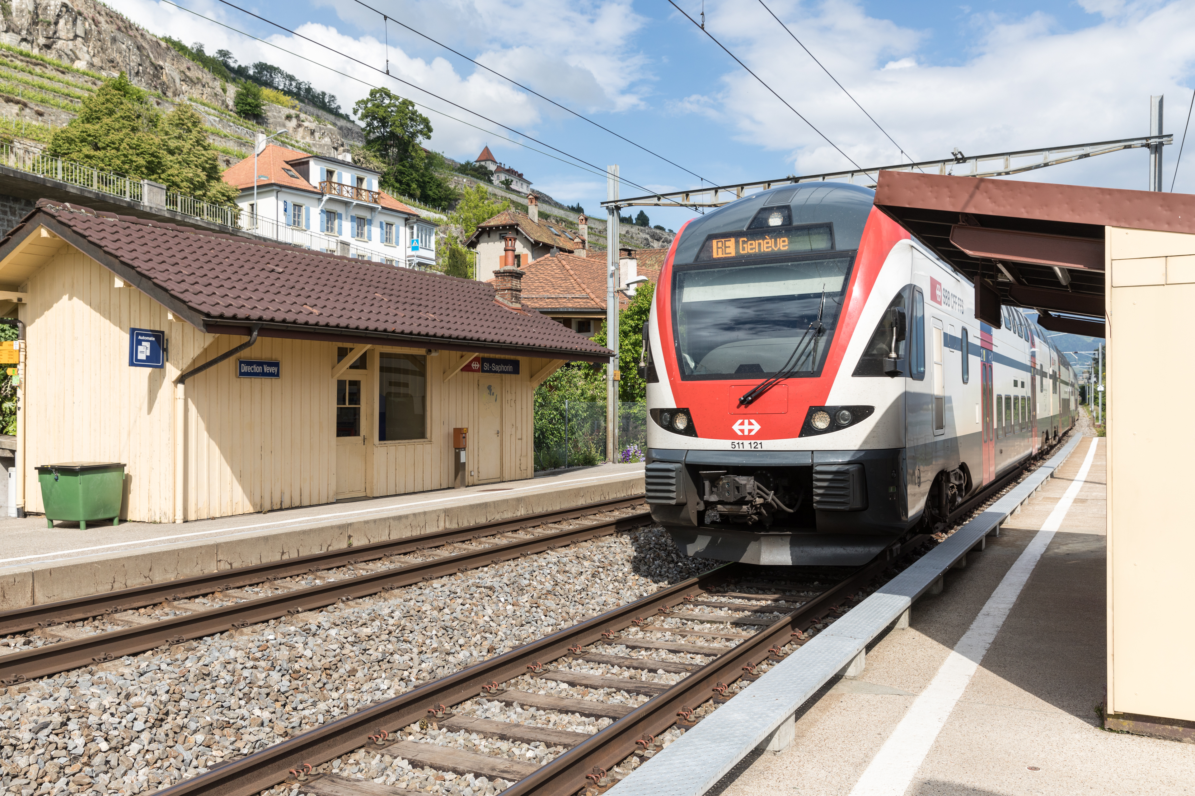 St-Saphorin train station with RABe 511 train